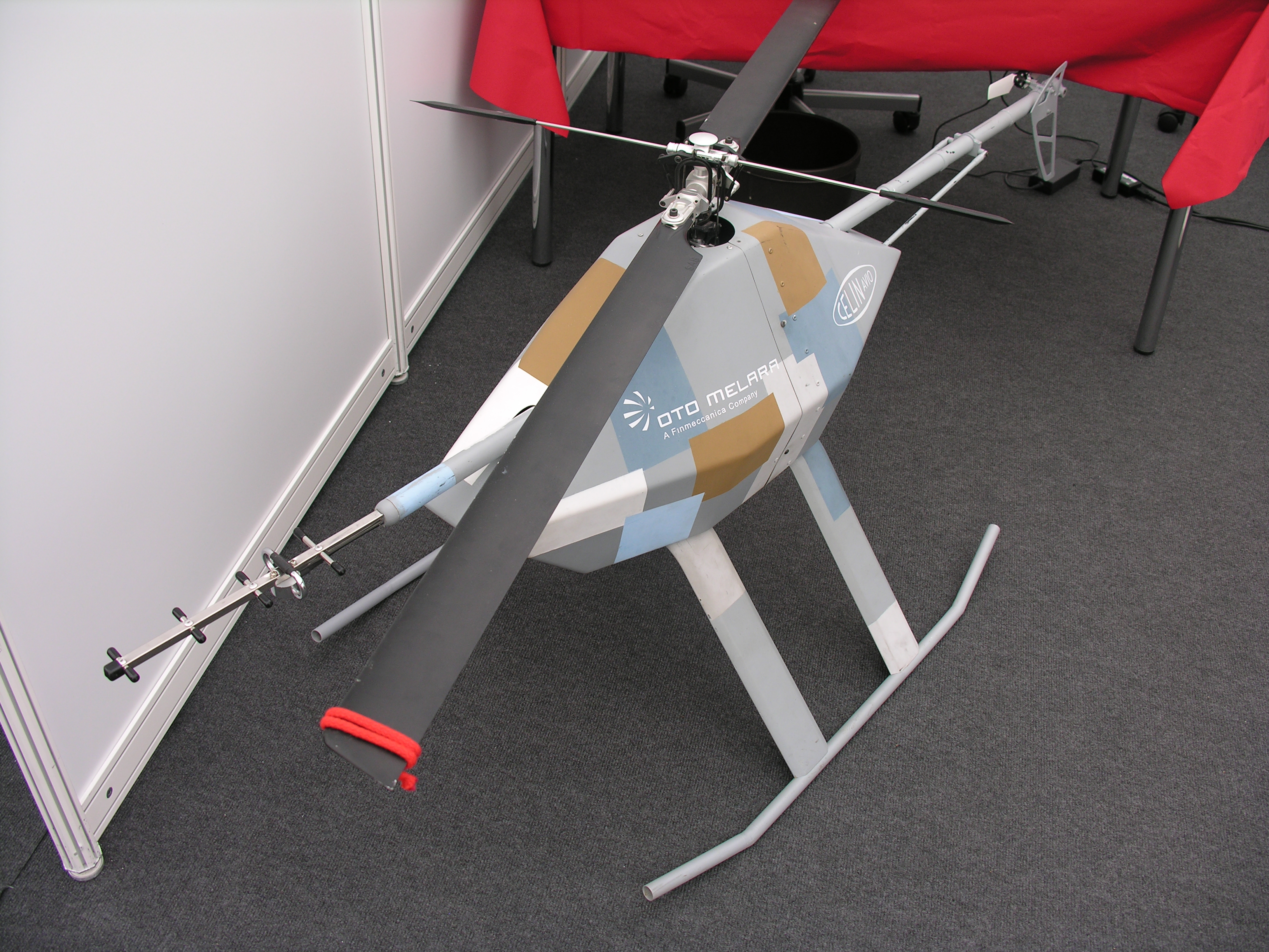 UAV of OTO Melara onTechDemo' 2008